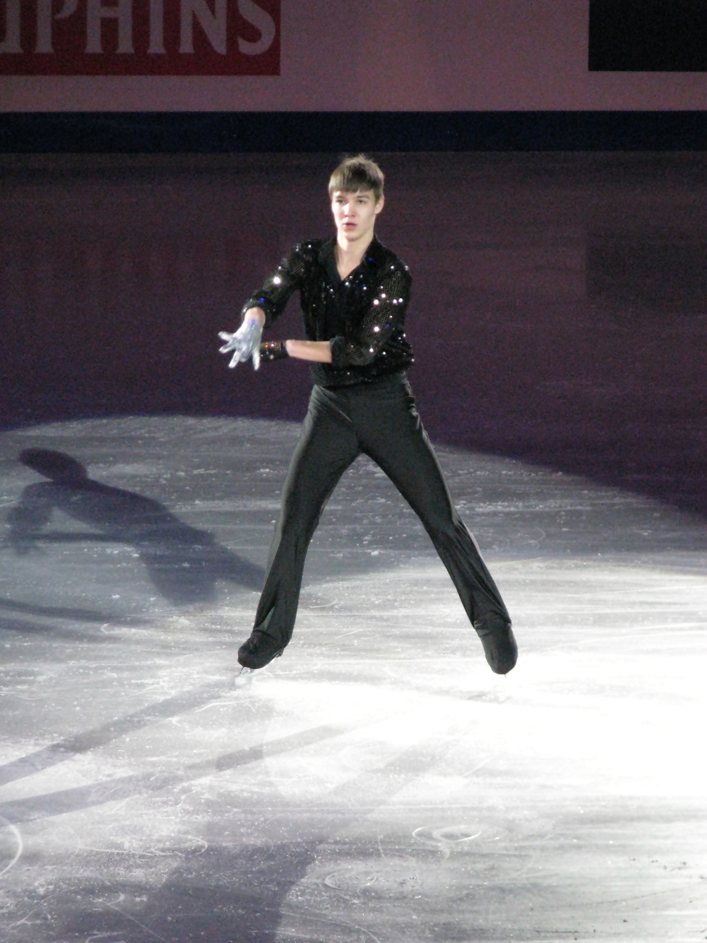 Viktor Romanenkov in 2010 European Figure Skating Championships (Exhibition program)